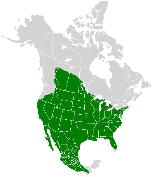 A range map showing the distribution of the Checkered White (Pontia protodice).